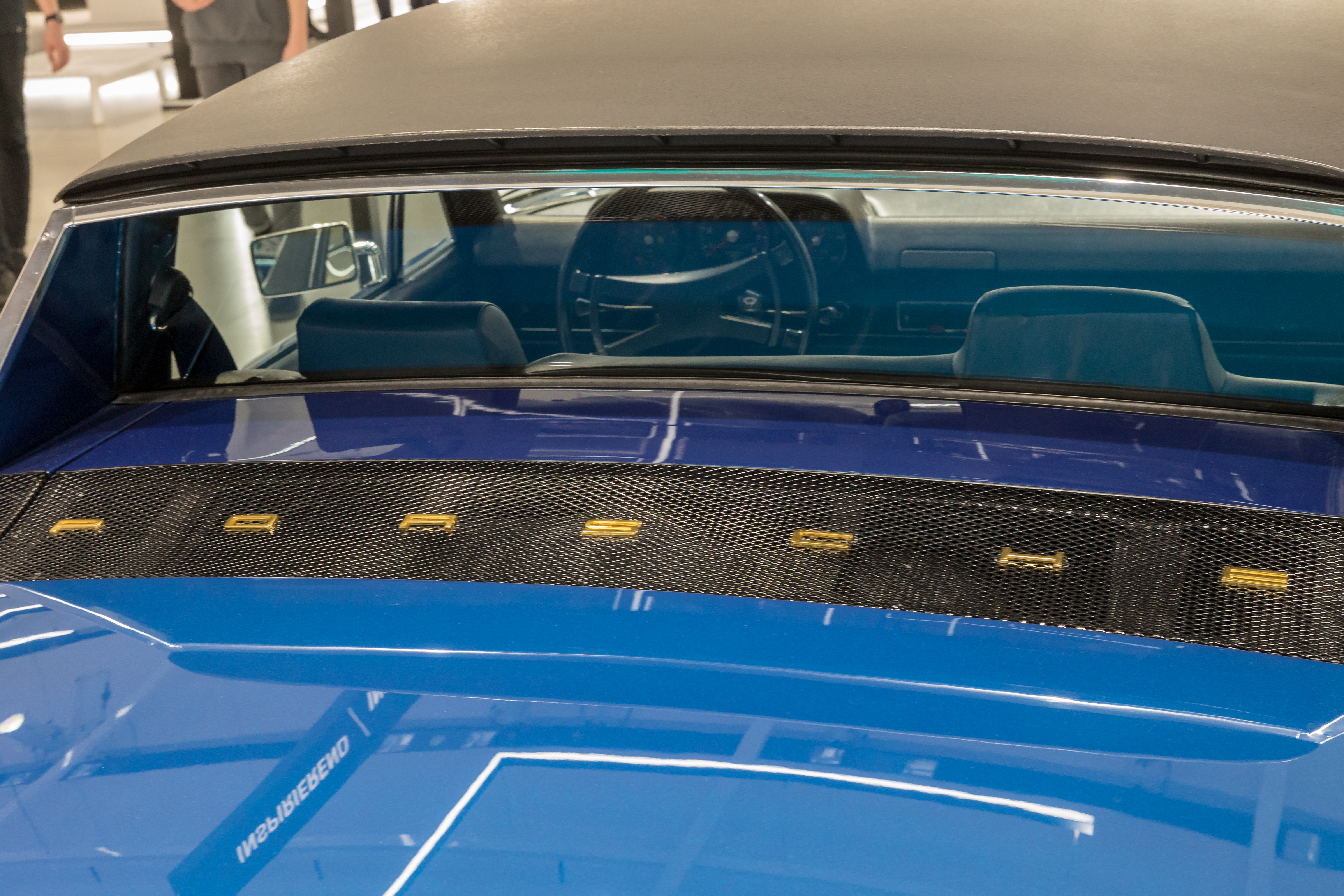 70 Years Porsche, DRIVE. Volkswagen Group Forum